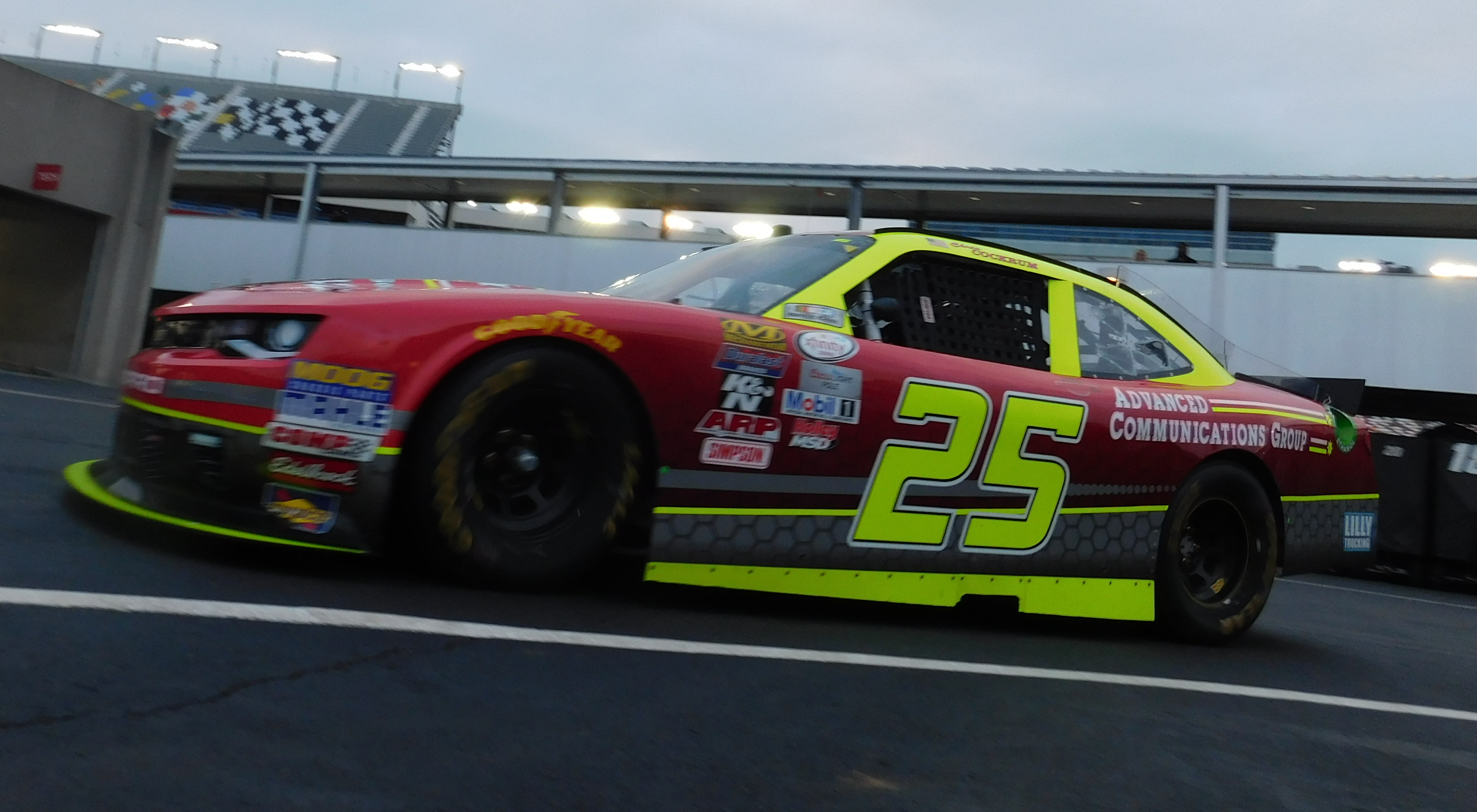 Chris Cockrum's No. 25 Advanced Communications Group Chevrolet at Charlotte Motor Speedway in 2016